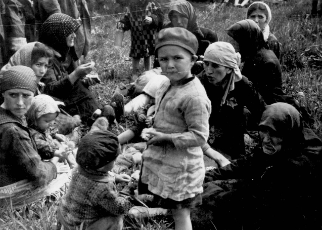 Birkenau, Poland, May 1944, Jews deemed unfit for work waiting in a grove near gas chamber no. 4 prior to their extermination. Photographs documenting the arrival process of Hungarian Jews from the Tet Ghetto in Auschwitz-Birkenau extermination camp during the second half of 1944. A copy of this photograph was given to Esther Pinkas by Lili Jacob. Pictured are members of the Pinkas and Gutmann families. Golda Pinkas Berkovics Gutmann is pictured at the bottom right, Moshe is the child in the foreground. Behind him is Sheindele Pinkas. Leib Pinkas has his back turned to the camera. On the bottom left is Rivka Gutmann holding her daughter. All are from Maramaros.[1]